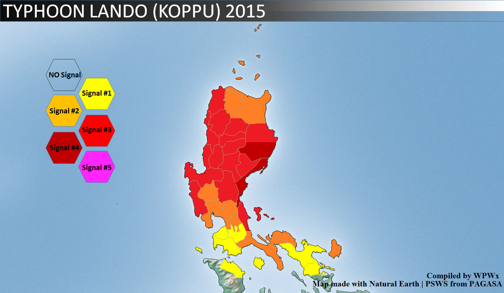 Highest PSWS raised by PAGASA as Lando traversed Luzon